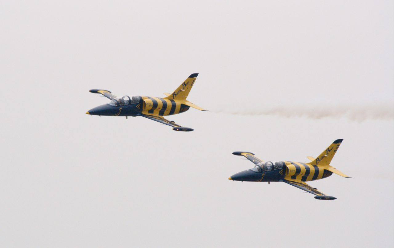 "Baltic Bees" Jet Team, on MAKS 2009 airshow.